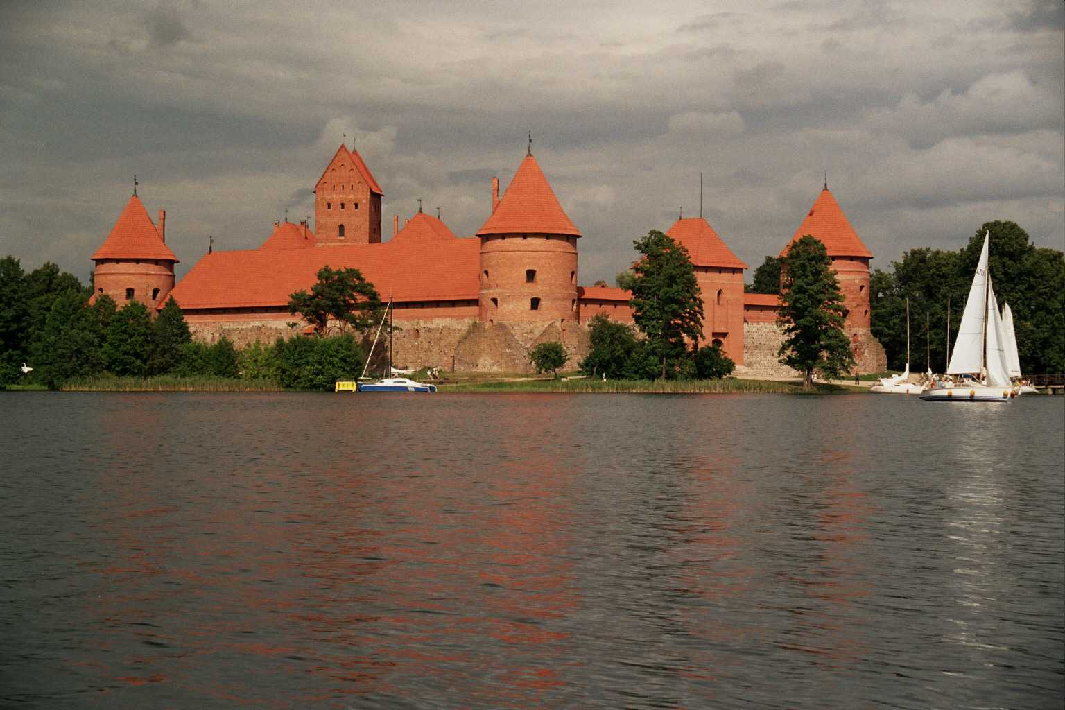 Trakai Island Castle.